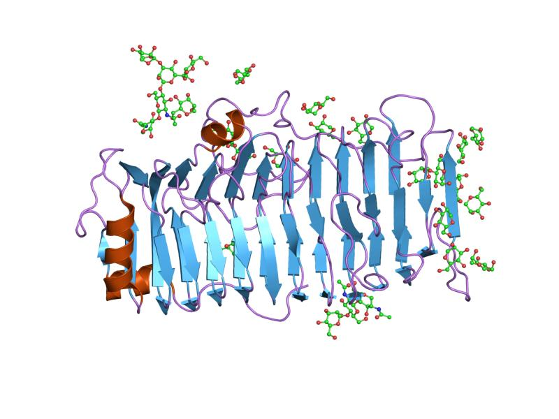 Cartoon representation of the molecular structure of protein registered with 1rmg code.